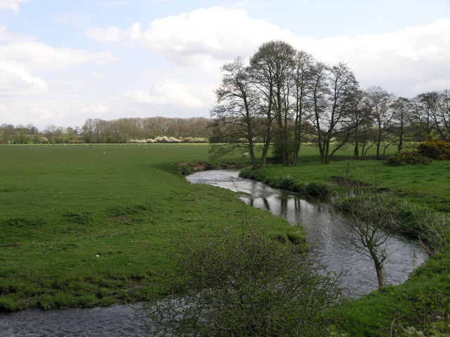 Winding Brook Sutton Brook winds across this flat plain on its journey towards the River Dove.